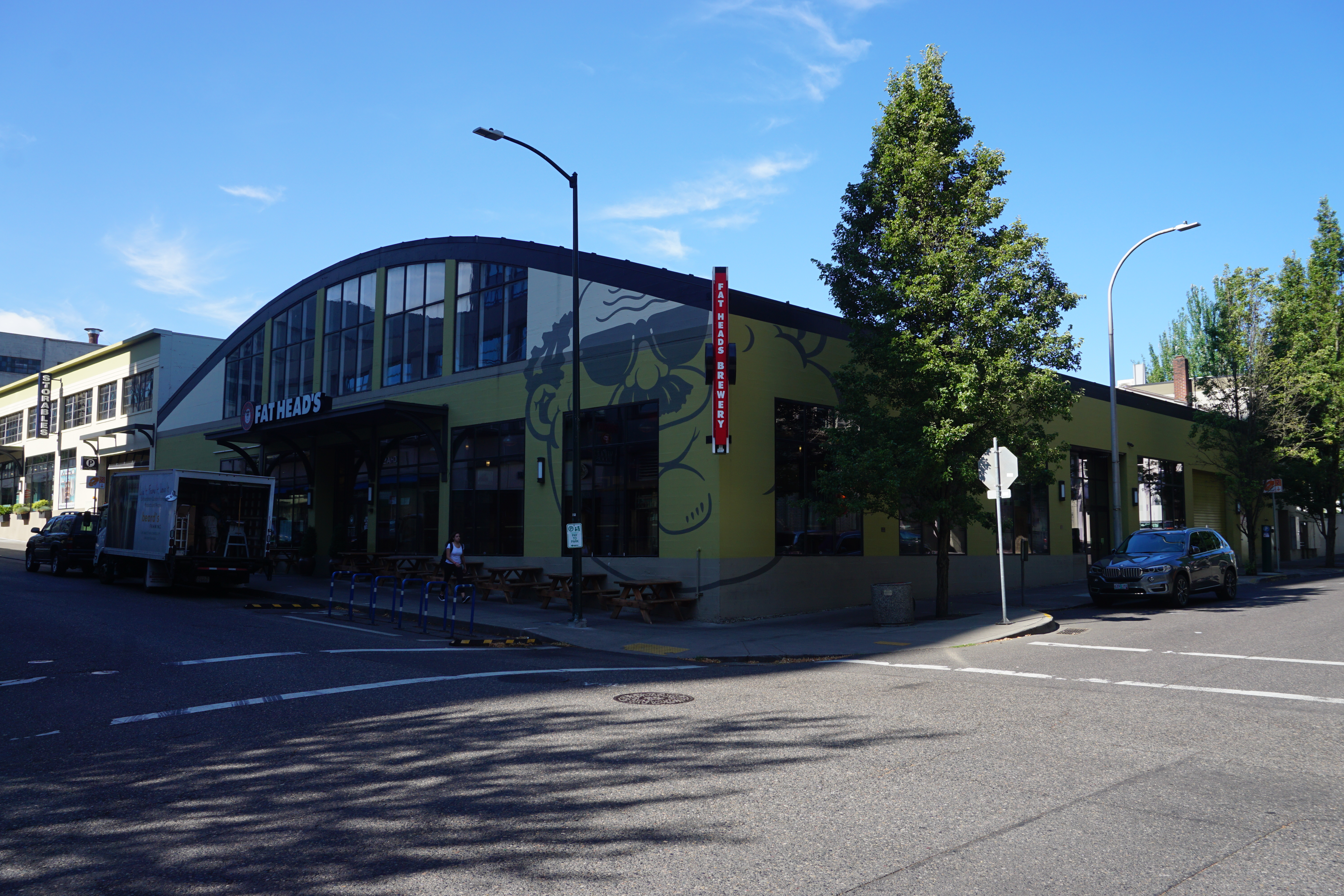 Fat Head's Brewery in Portland, Oregon (United States).